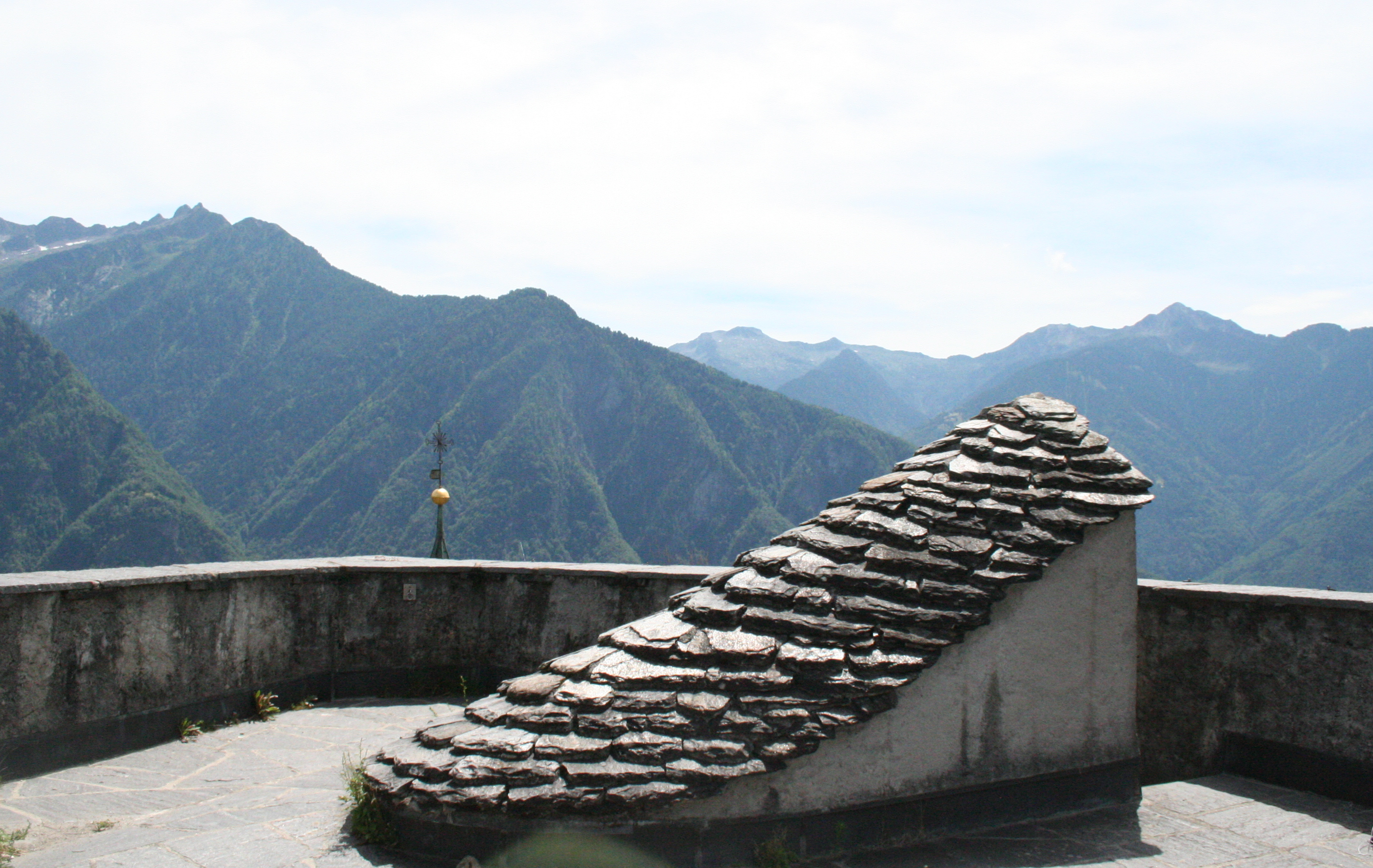 Tower Santa Maria in Calanca: Dach